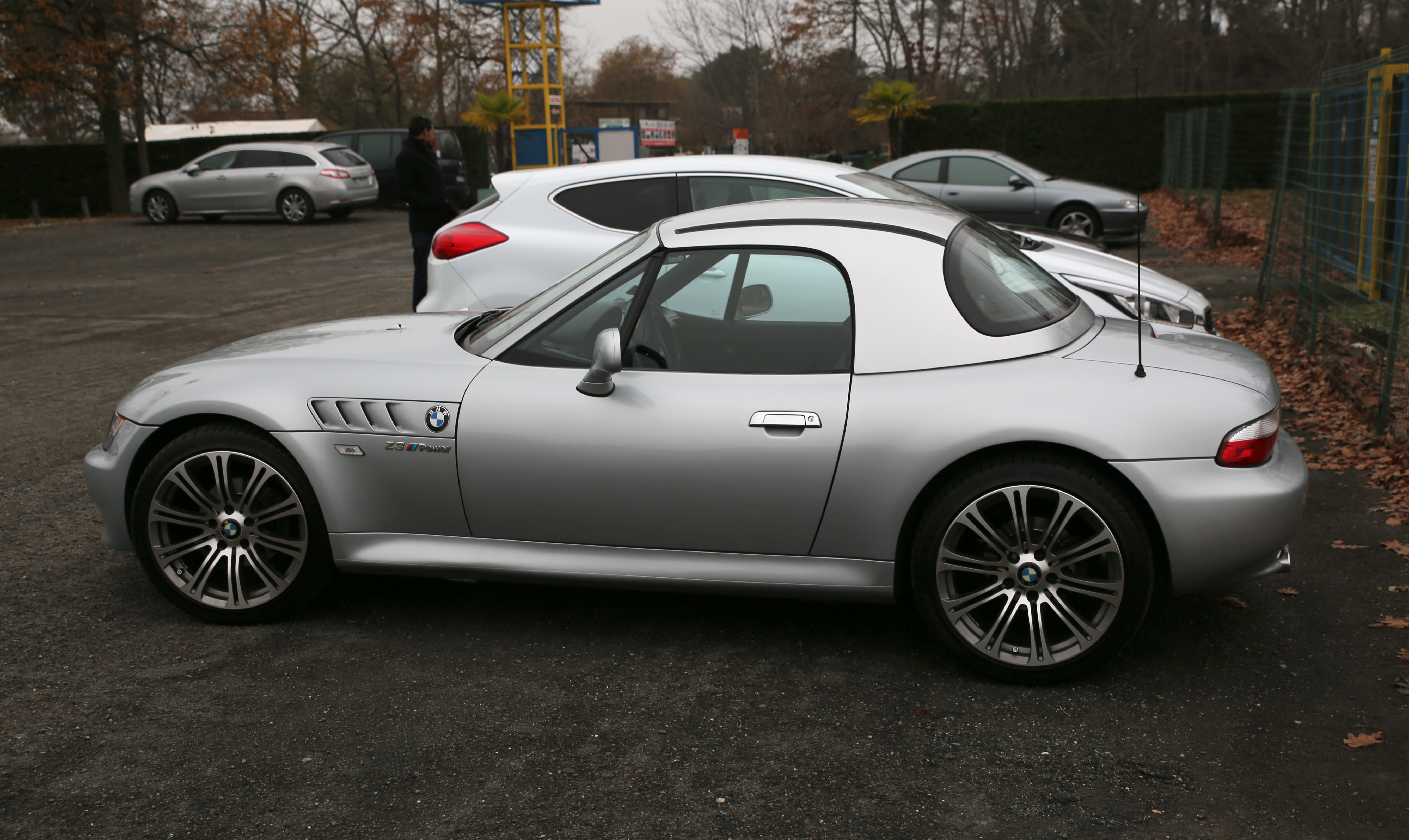 BMW Z3 Power with hardtop